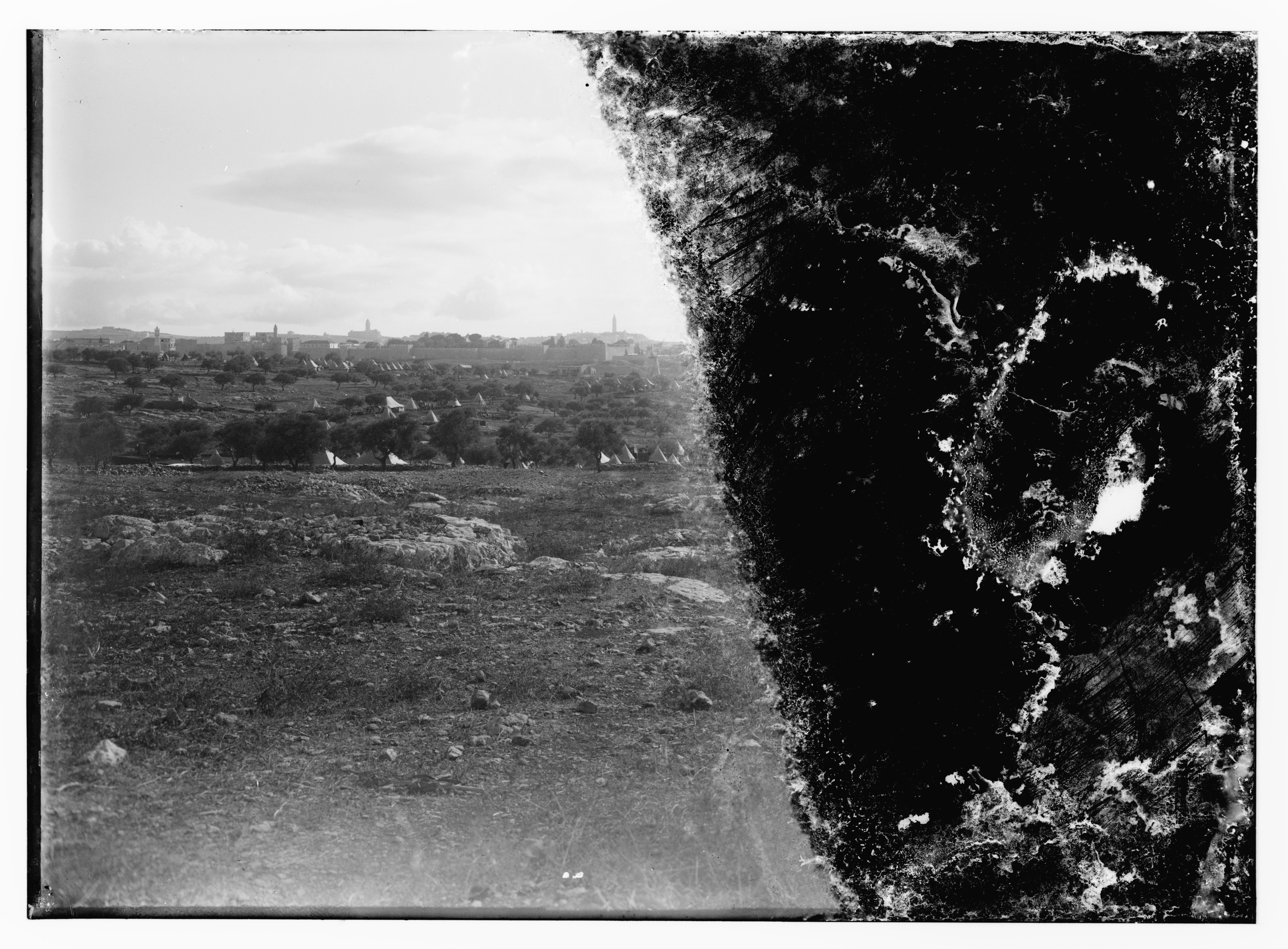 Title: 6th Australian light-horse regiment, 1918, camped outside Jerusalem in Mt. Scopus area Abstract/medium: G. Eric and Edith Matson Photograph Collection Physical description: 1 negative